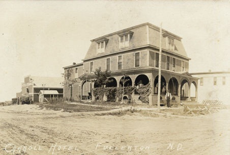 Photo postcard of Carroll House Hotel, Fullerton, North Dakota. Image is in the public domain as published prior to 1923. Source information from NDSU web site (above) gives postmark date of Oct. 8, 1907.